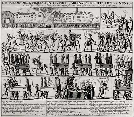 An engraved broadside on the Popish Plot showing a Whig mock procession held in London on 17 November 1680 during the height of the Exclusion Crisis. An Exclusion Bill was introduced in the House of Commons with the aim of excluding James, Duke of York, the brother and heir presumptive of Charles II of England from the thrones of England, Scotland and Ireland because he was Roman Catholic. The Tories opposed exclusion while the "Country Party", who were soon to be named the Whigs, supported it. Every November, on the anniversary of Elizabeth I's accession, the Whigs organised huge processions in London in which the Pope was burnt in effigy. The three bottom sections of the engraving show effigies of the Pope, cardinals, Jesuits, priests and nuns being carried in a mock procession. The top section shows the effigies being thrown on to a large bonfire outside Temple Bar while a crowd observes the proceedings.